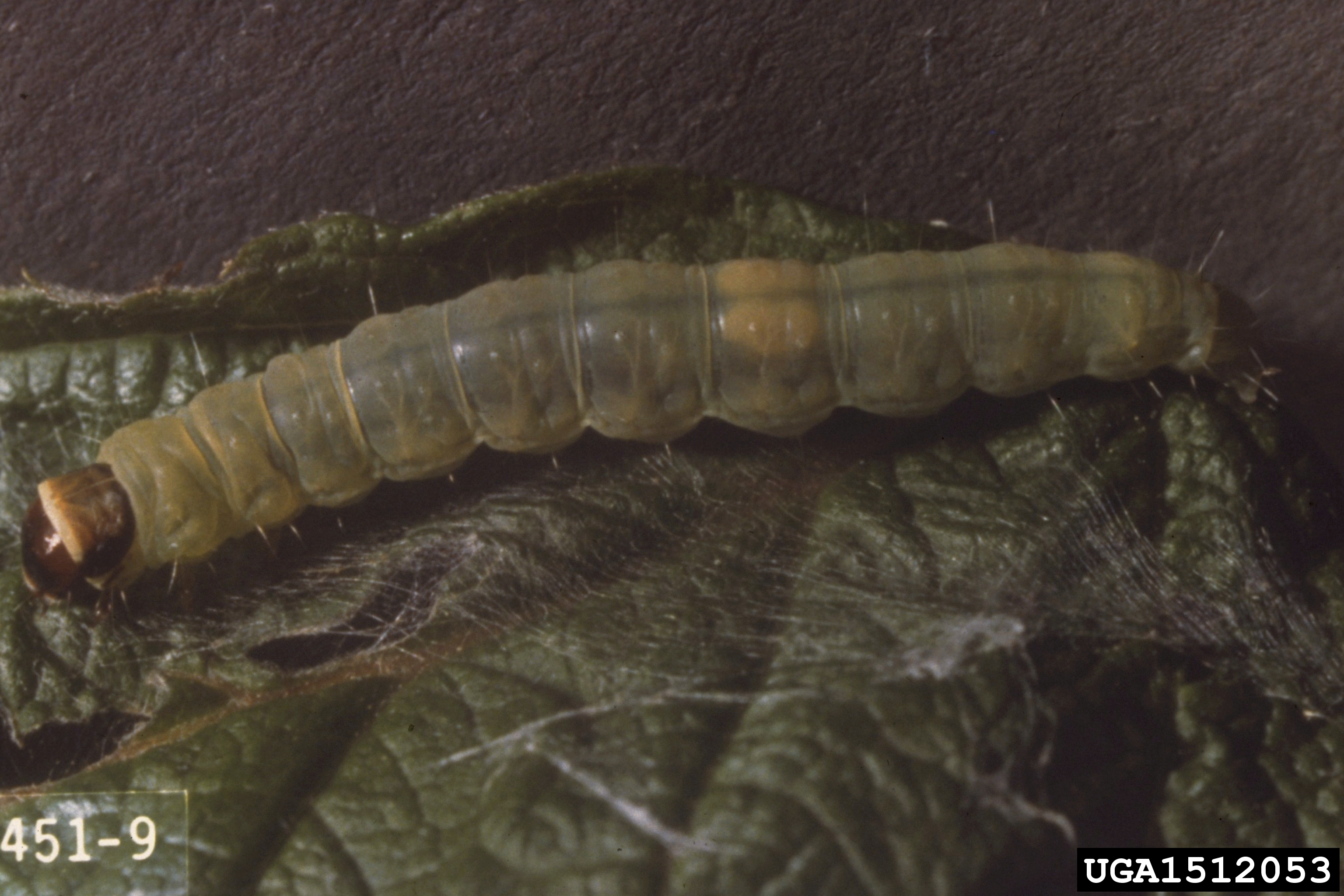 Choristoneura rosaceana larva